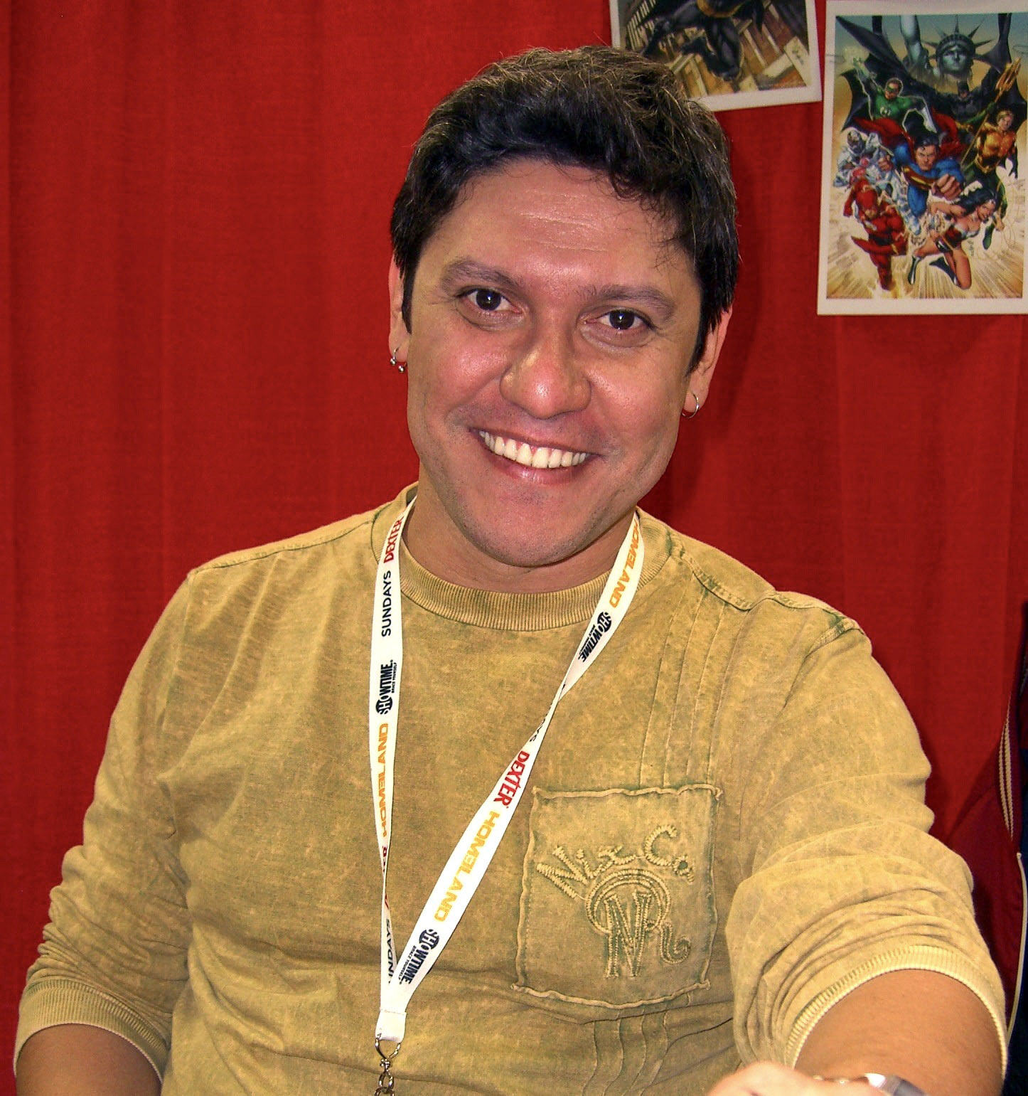 Comics creator Ivan Reis on Day 3 of the 2012 New York Comic Con, Saturday October 13, 2012 at the Jacob K. Javits Convention Center in Manhattan. This photo was created by Luigi Novi. It is not in the public domain, and use of this file outside of the licensing terms is a copyright violation.